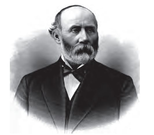 Portrait of George H. Atkinson, Oregon missionary and educator